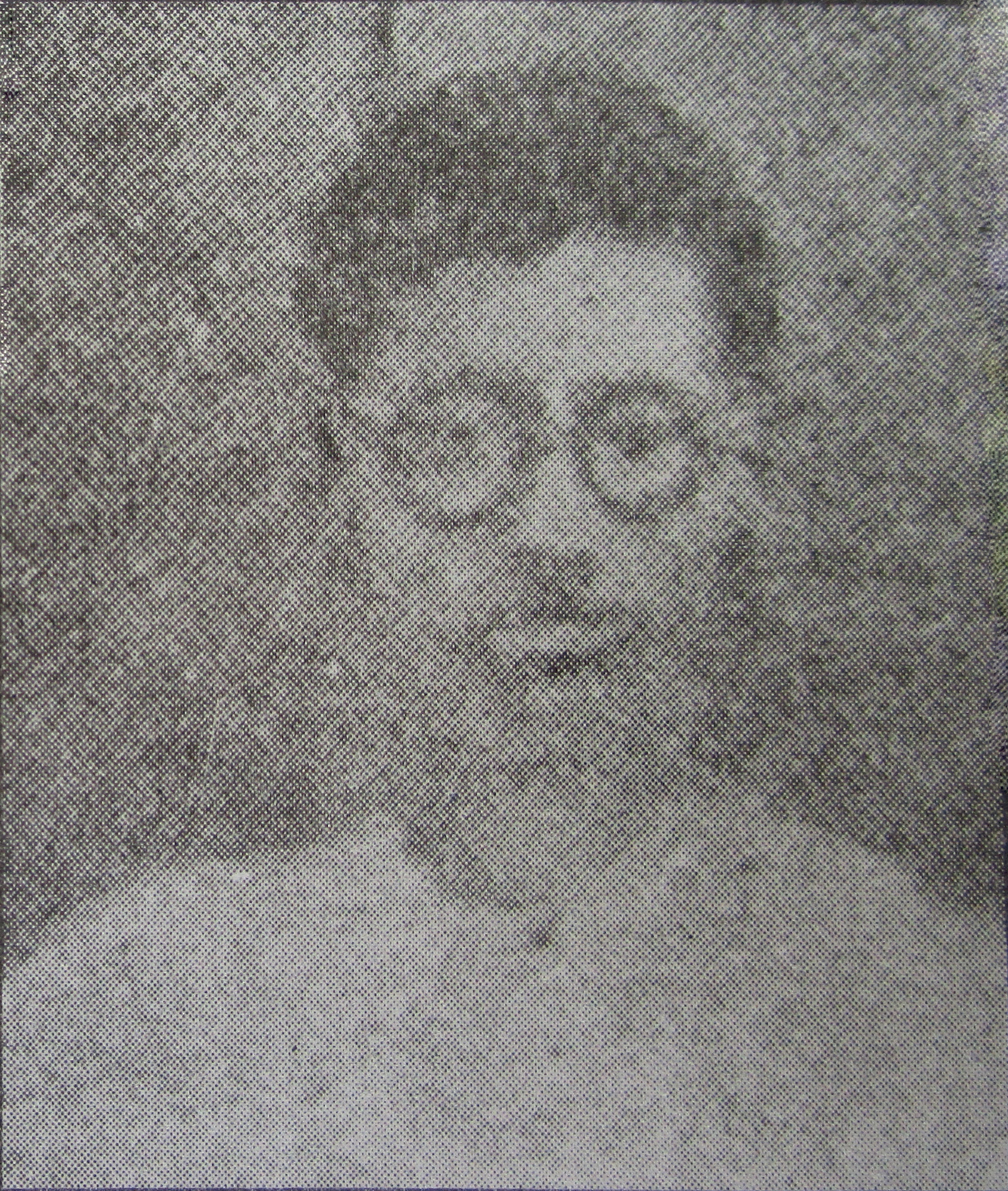 Kalipada Mukherjee